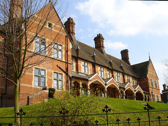 Almshouses, Faversham Designed by two Kent architects, Hooker and Wheeler, and built in 1863, the almshouses consist of 70 units. They replaced several smaller almshouses scattered about the town and were funded by a bequest to the town by Henry Wreight (1760-1840), a local solicitor and former Mayor of Faversham. This is the western end of the building, viewed from Tanners Street.